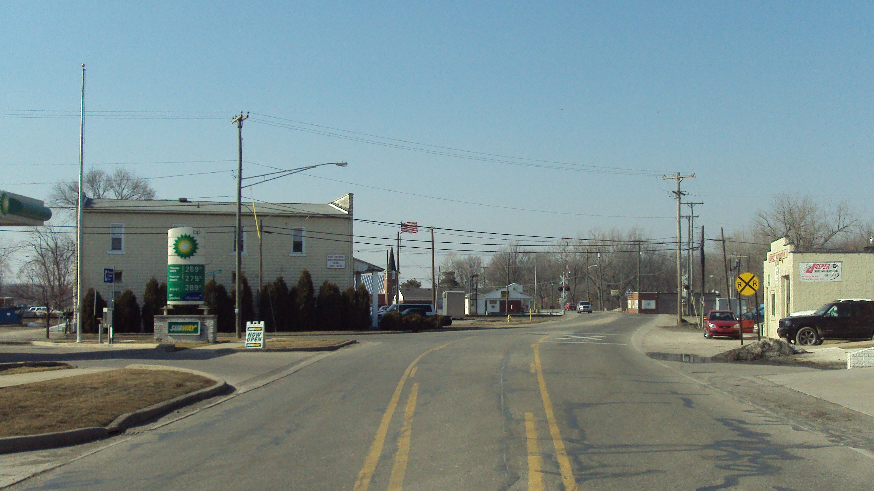 The community of Newport along Swan Creek Road